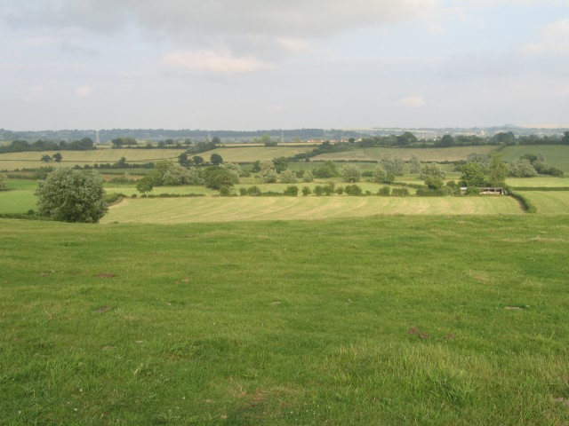 View beside Turners Farm.